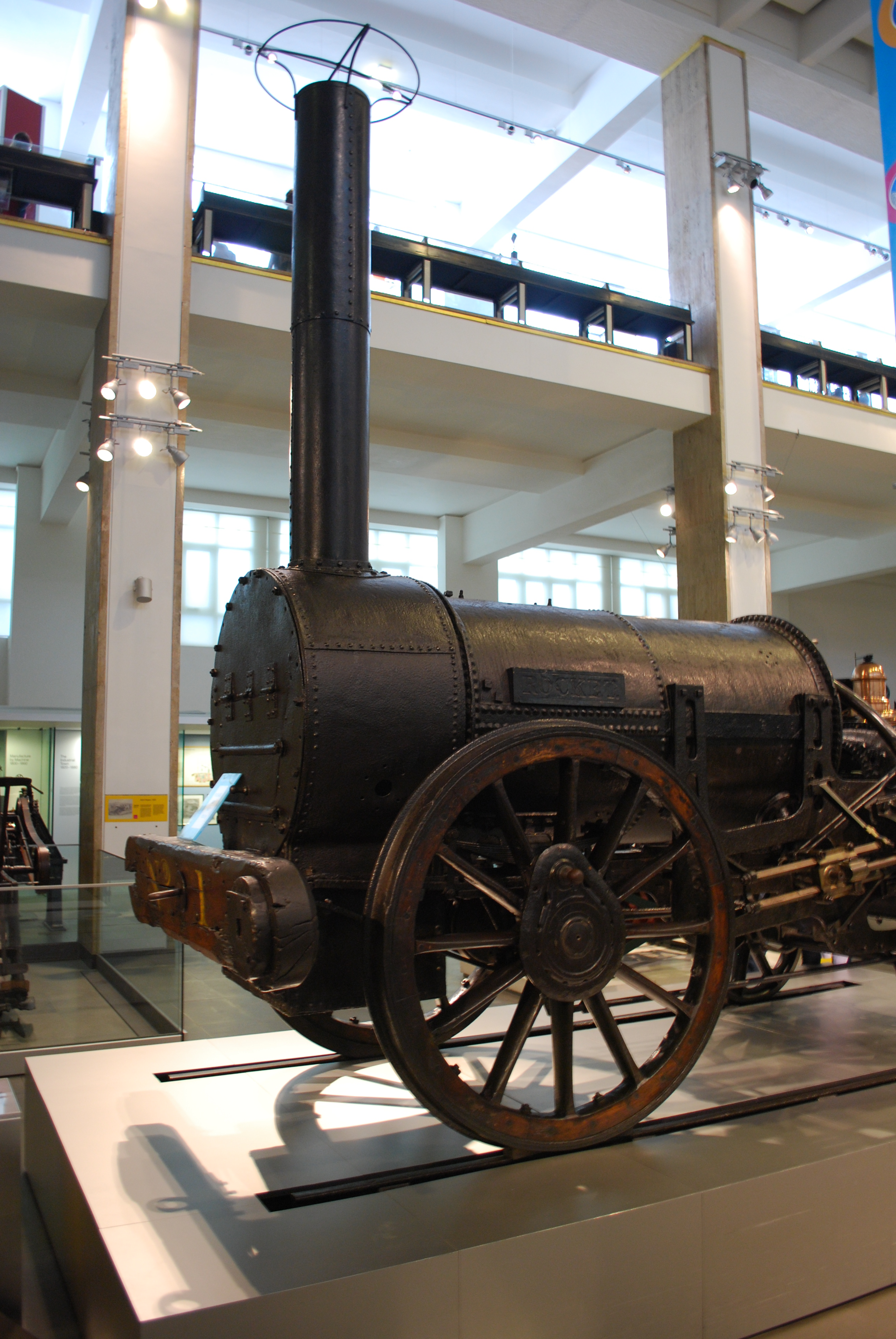 The locomotive of Stephenson's Rocket in London Science Museum.